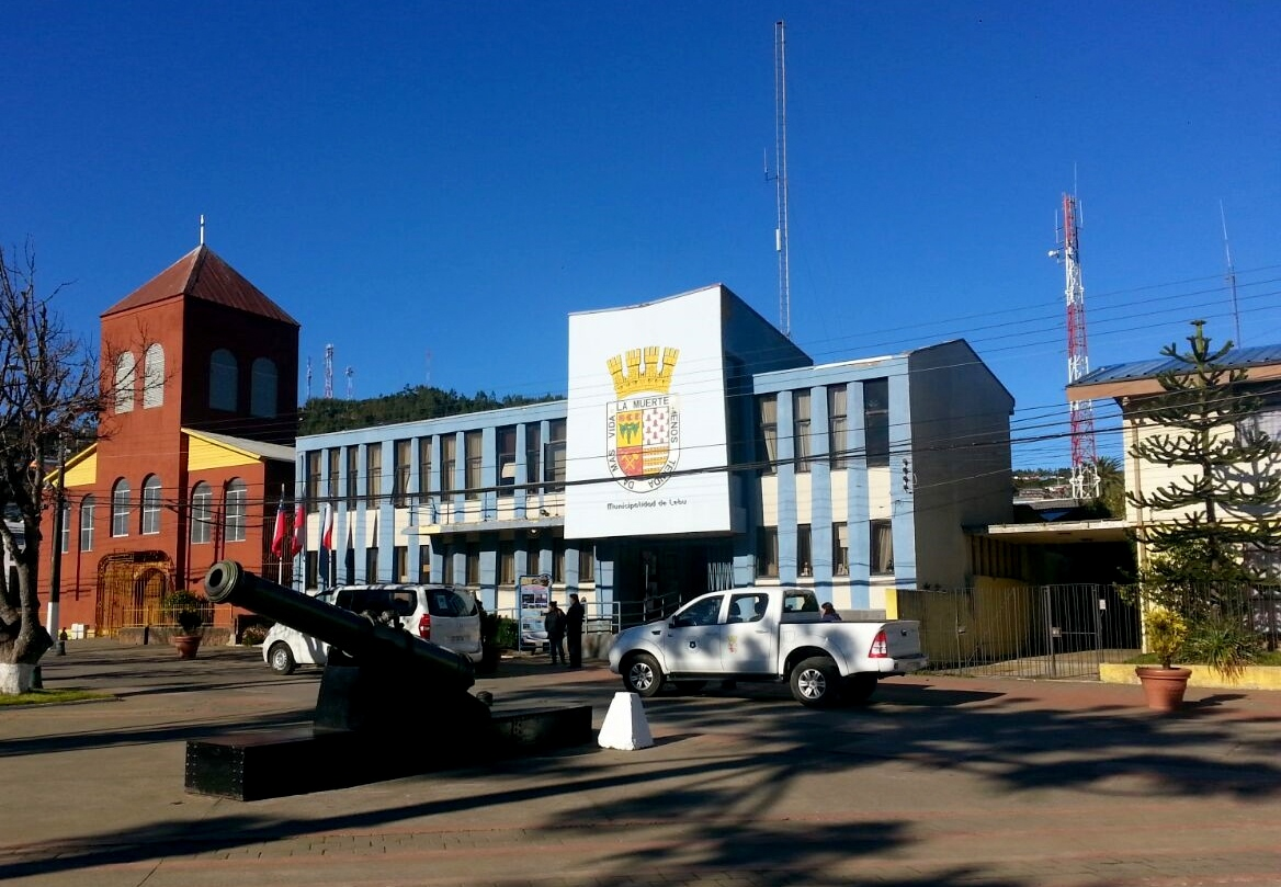 Lebu Town Hall and Church of St. Rose of Lima